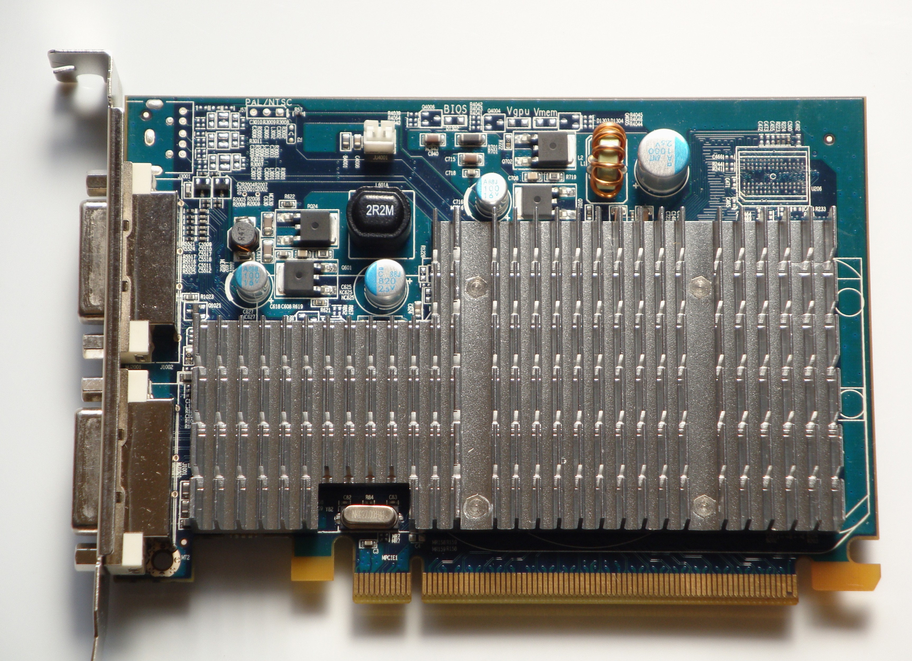 This is RADEON HD3450 Graphics Card. This product has Dual DVI output and fanless cooler.